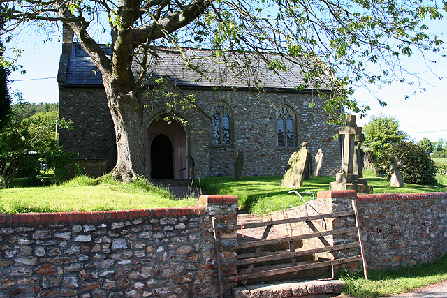 Culm Davy chapel, Hemyock, Devon, seen from the south